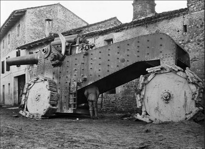 Photo of World War I Italian howitzer Obice da 305/17 su affusto De Stefano with De Stefano mount, on a siege carriage with pedrail wheels. The howitzer was captured by Austrian troops near Udine. The photo was taken by Czech photographer Jindřich Bišický (February 11, 1889 - October 31, 1949 . (The autor was identified only in 2009. [1]) Details about the gun model: [2], details about the mount and carriage: [3]. Another photo from different angle: [4].